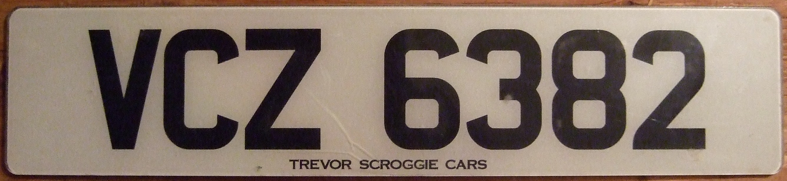 Current issue Northern Ireland plates colored black on white were issued on the front of the vehicle, black on yellow on the rear.